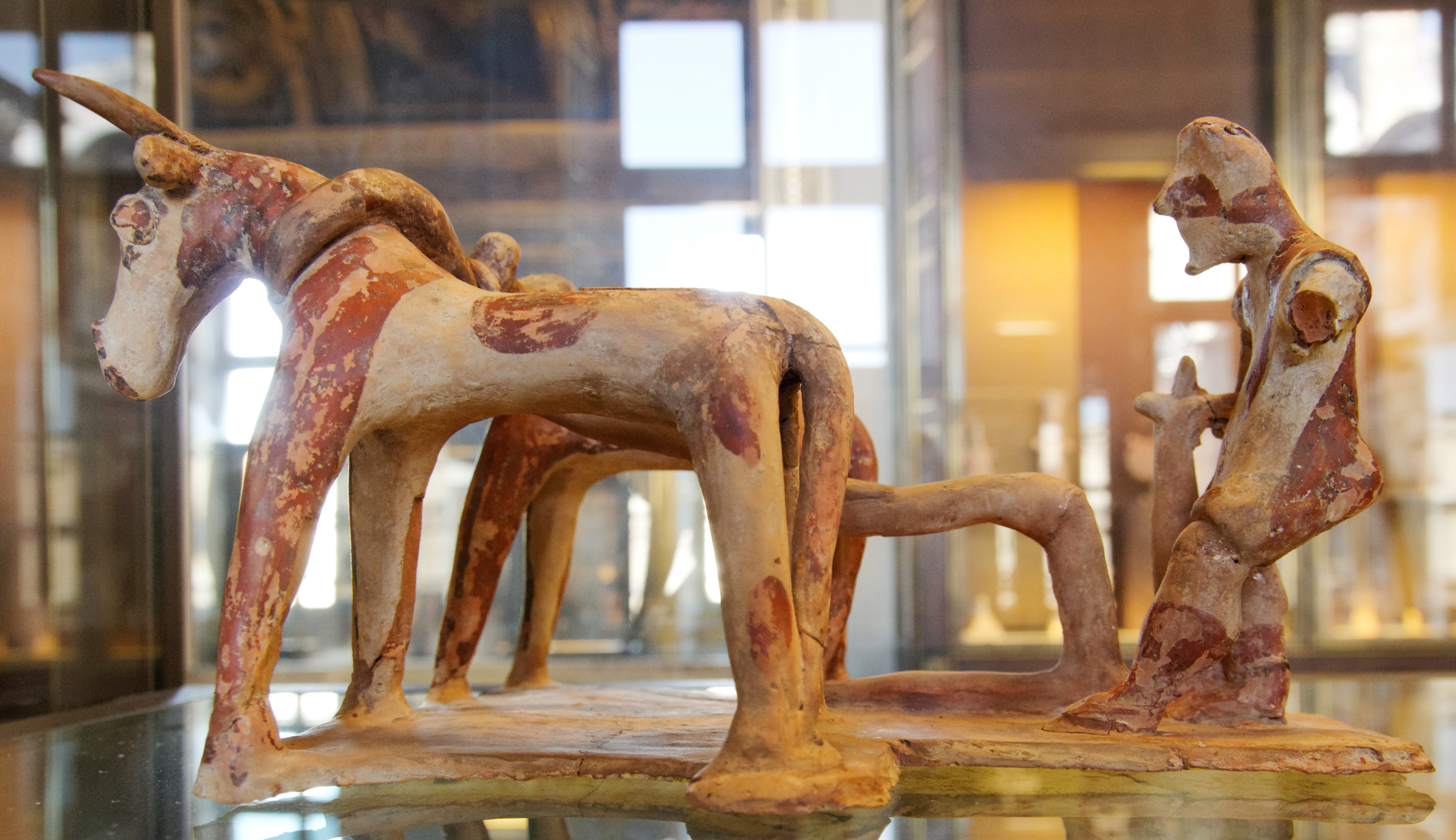 Figurine of a ploughman.